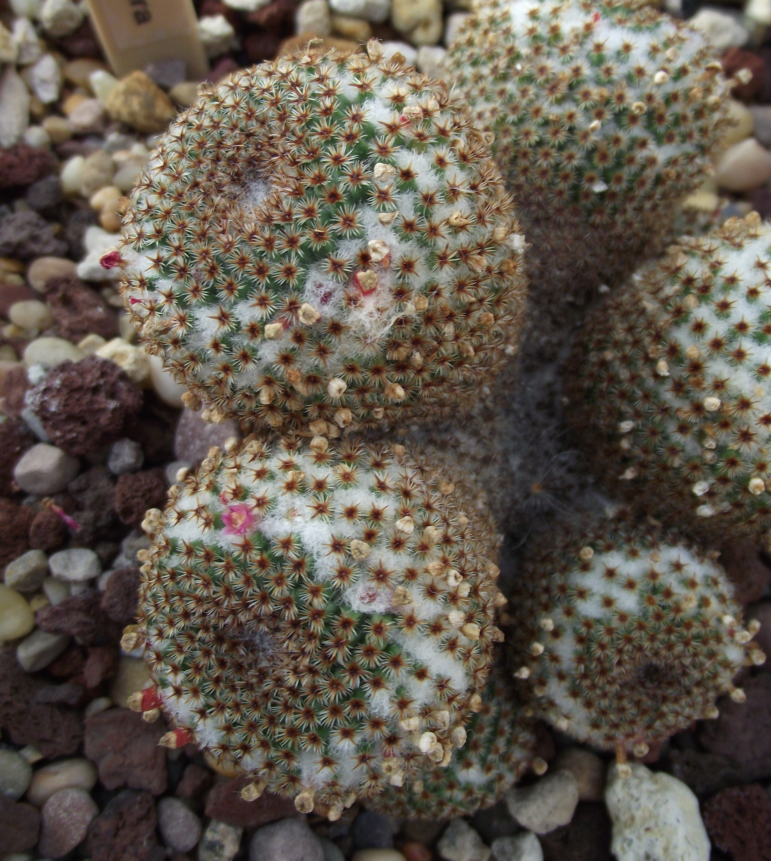 Mammillaria crucigera at the Volunteer Park Conservatory, Seattle, Washington, USA. Identified by sign.